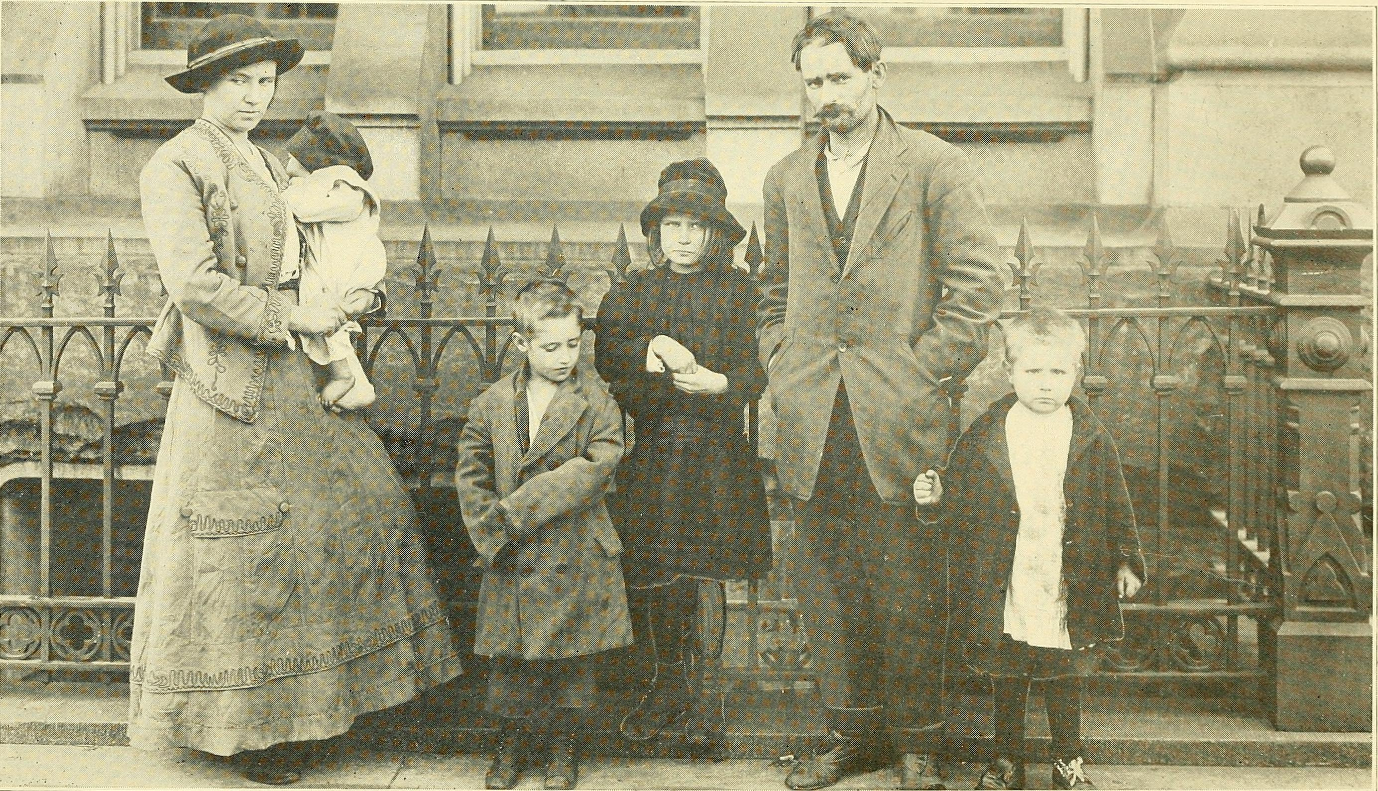 Title: Mental defectives in Virginia: a special report of the State board of charities and corrections to the General assembly of nineteen sixteen on weak-mindedness in the state of Virginia, together with a plan for the training, segregation and prevention of the procreation of the feeble-minded Year: 1915 (1910s) Authors: Virginia. State Board of Charities and Corrections Walter E. Fernald State School. Howe Library Subjects: People with mental disabilities Criminals Publisher: Richmond : D. Bottom, superintendent of public printing Text Appearing Before Image: ' Text Appearing After Image: Mental Defectives in Virginia A SPECIAL REPORT OF THE State Board of Charities and Corrections TO THE General Assembly of Nineteen Sixteen ON WEAK-MINDEDNESS in the STATE OF VIRGINIA Together with a Plan for the Training, Segregation andPrevention of the Procreation of the Feeble-minded RICHMOND: DAVIS BOTTOM, SUPERINTENDENT OF PUBLIC PRINTING 1915 TABLE OF CONTENTS Letter op Transmittal to the Governor op Virginia 3- 6 I. General Introduction 7-10 II. Report of Visit to Institutions 11-16 III. The Relation op Heredity to Feeble-Mindedness 17-20 IV. The Relation op Feeble-Mindedness to Insanity 21-28 V. The Relation op Feeble-Mindedness to Epilepsy 29-36 VI. The Relation of Feeble-Mindedness to Pauperism 37-56 VII. The Relation op Feeble-Mindedness to Juvenile Delin-quency 57-62 VIII. The Relation of Feeble-Mindedness to Prostitution 63-68 IX. The Relation of Feeble-Mindedness to Crime and Drunk-enness 69-106 X. Summary 107-109 XL A Plan for the Training, Segregation and Prevention ofmentaldefectives00virg